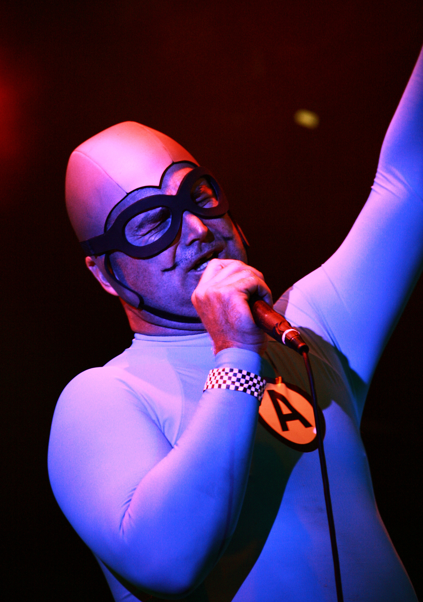 Christian Jacobs, in character as The MC Bat Commander, lead singer of The Aquabats.